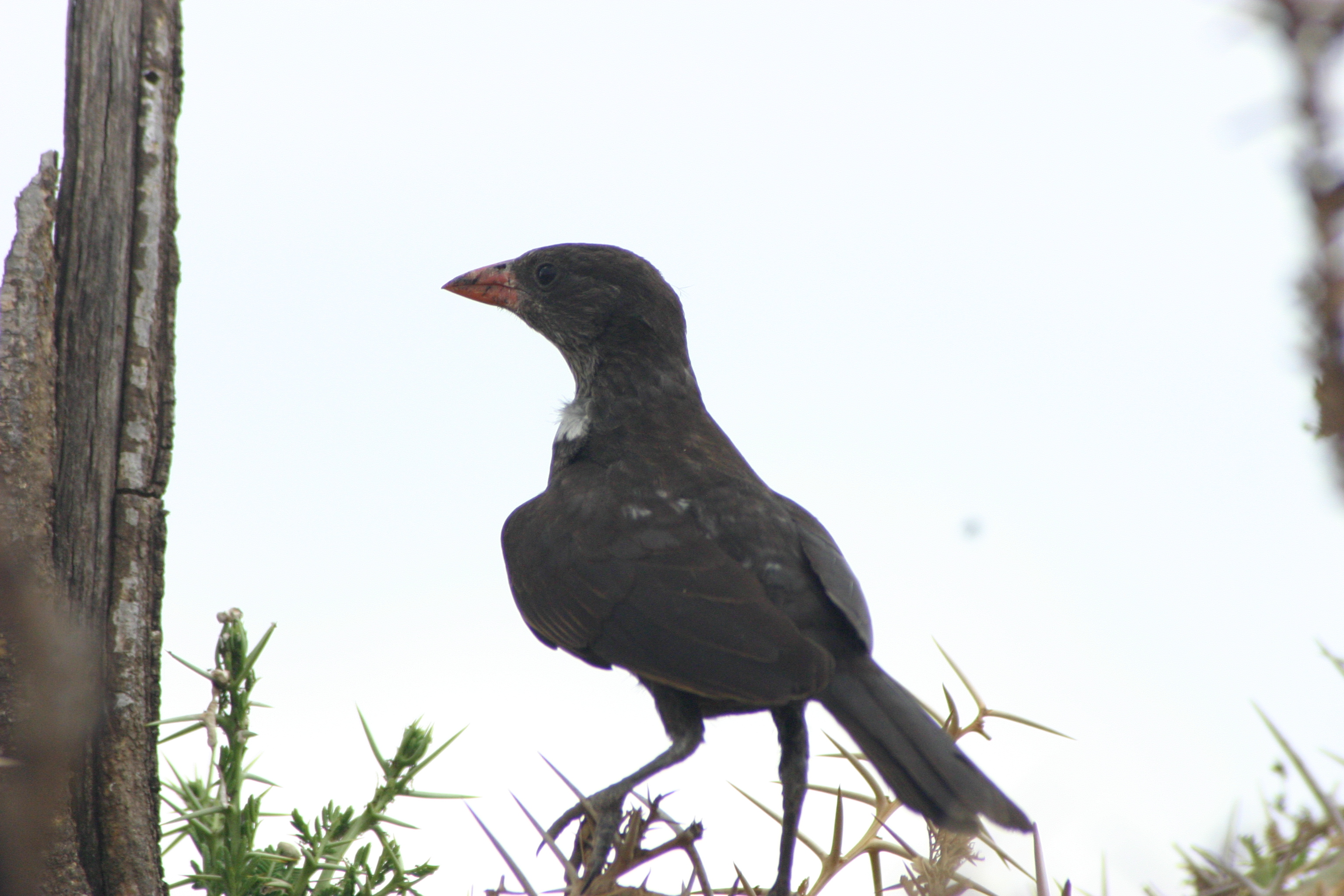 Red billed buffalo weaver